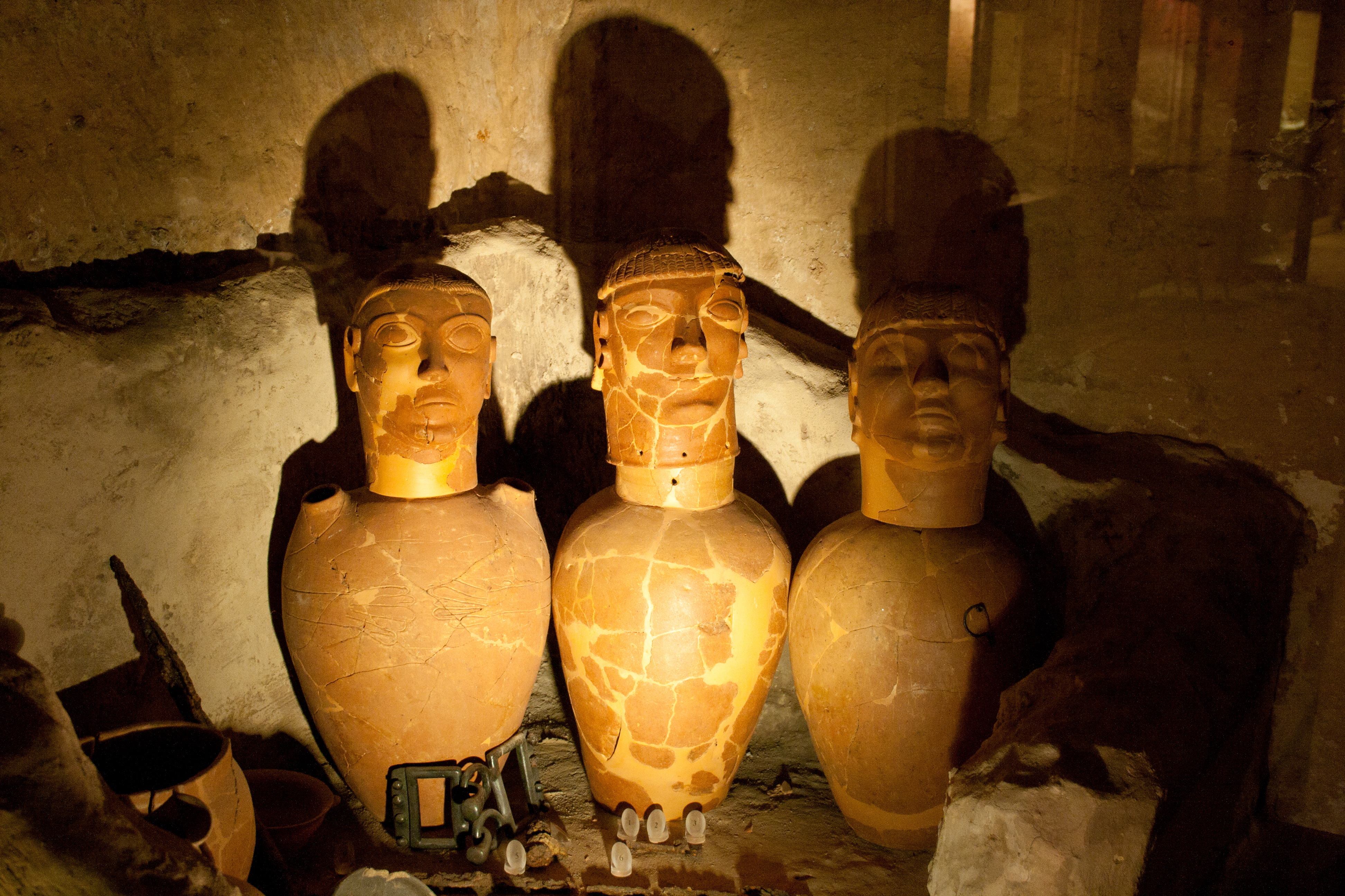 Etruscan canopic jars. Chianciano, Archeological Museum